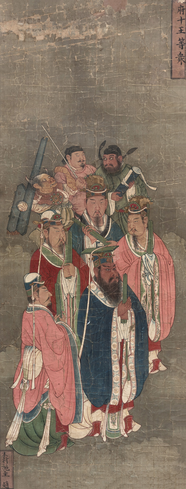 a fragment of a painting about the Ten Kings of hell, painted by ancient Chinese artist